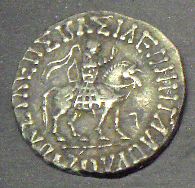 Coin of Azes II in Musée Guimet (Paris, France).